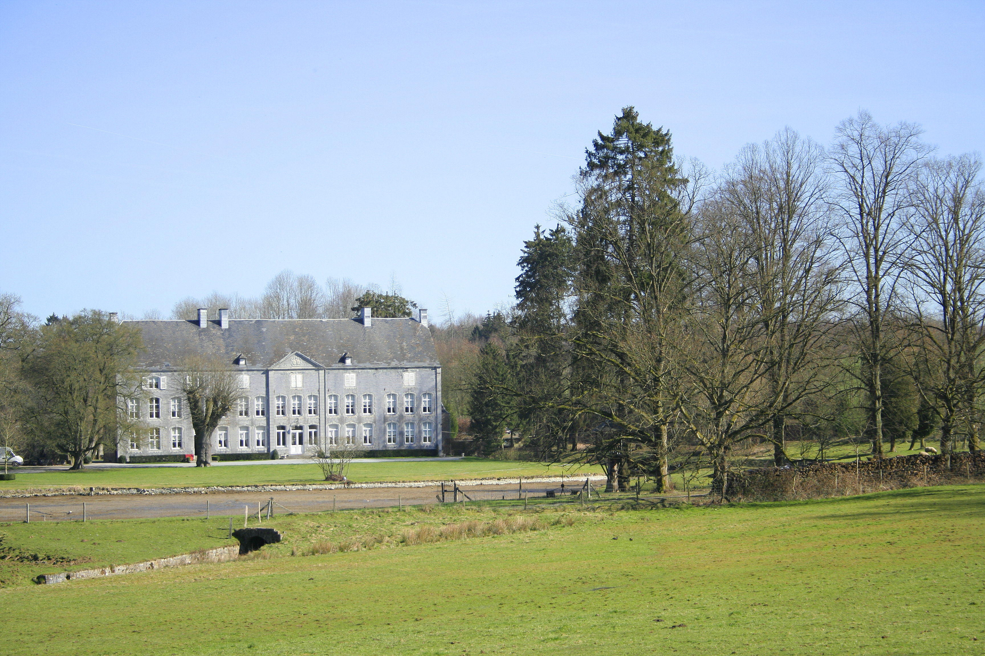 Emptinne (Belgium), the classical wing of the « de Fontaine castle » (XVIIIth century).